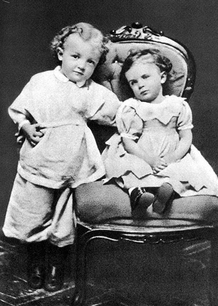 Vladimir Lenin 3 years old